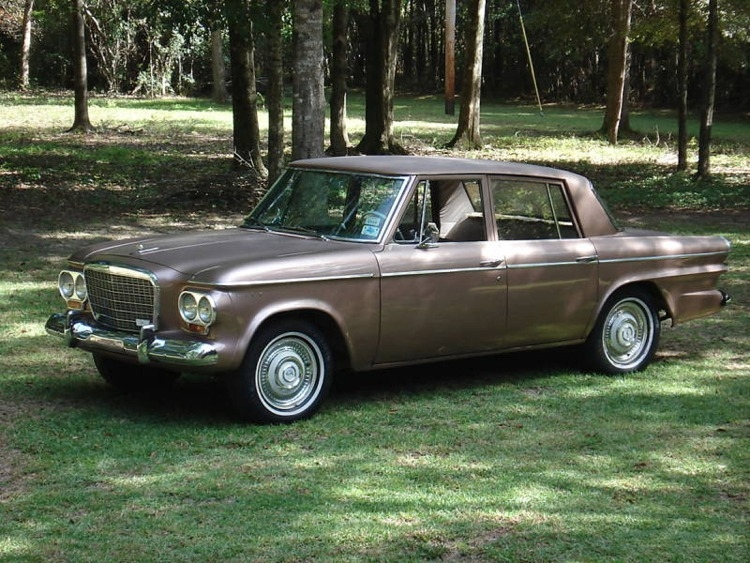 A 1963 Studebaker Lark, Regal trim level, four door sedan. Color of car is factory "Rose Mist".